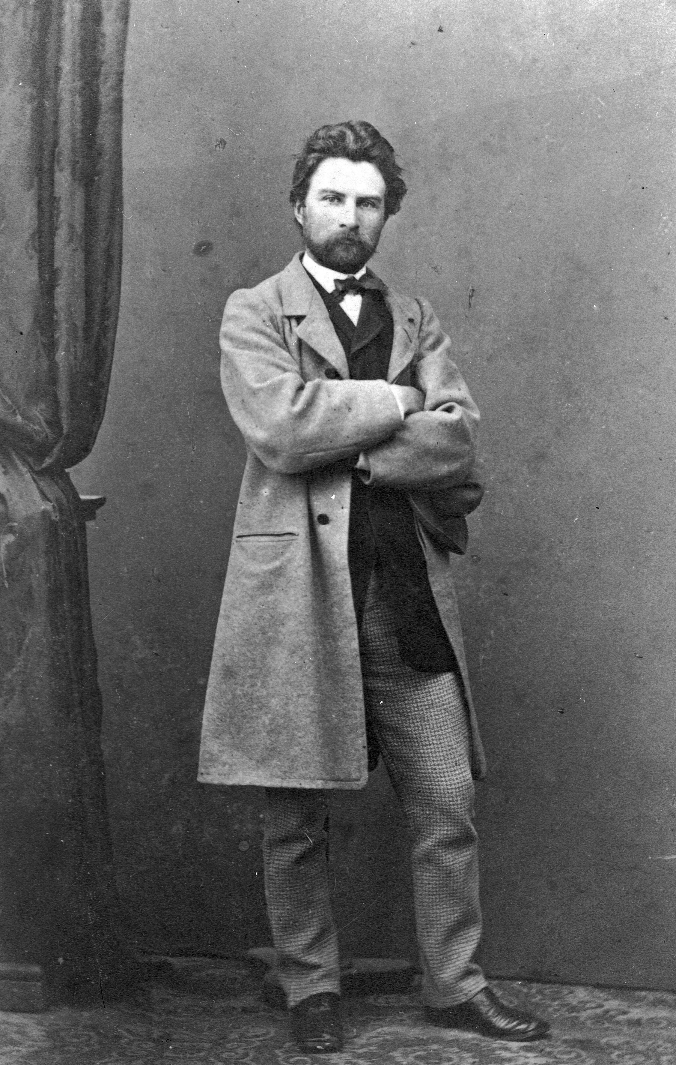 Picture of the Danish painter Otto Bache